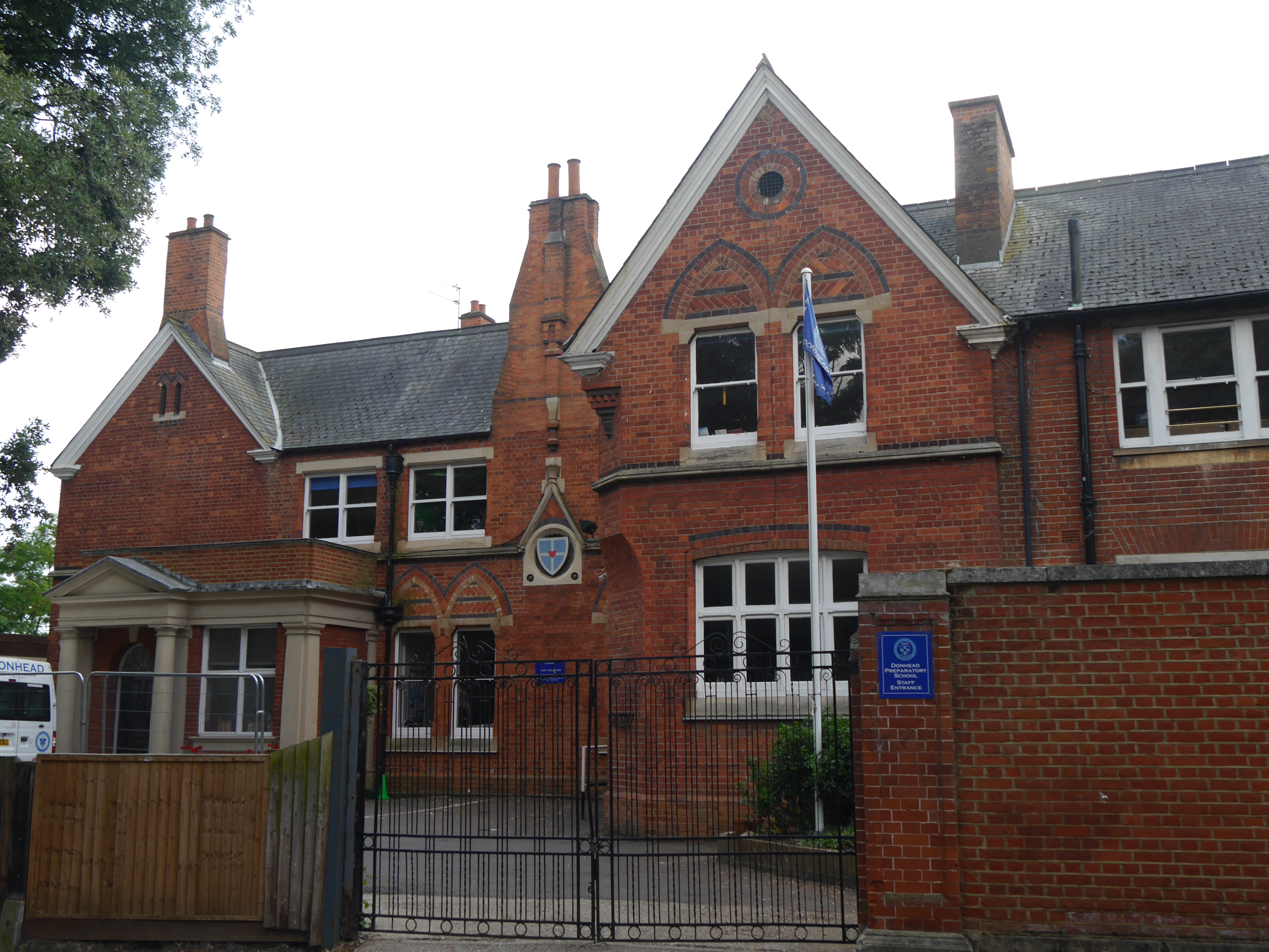 Donhead Preparatory School, 2016